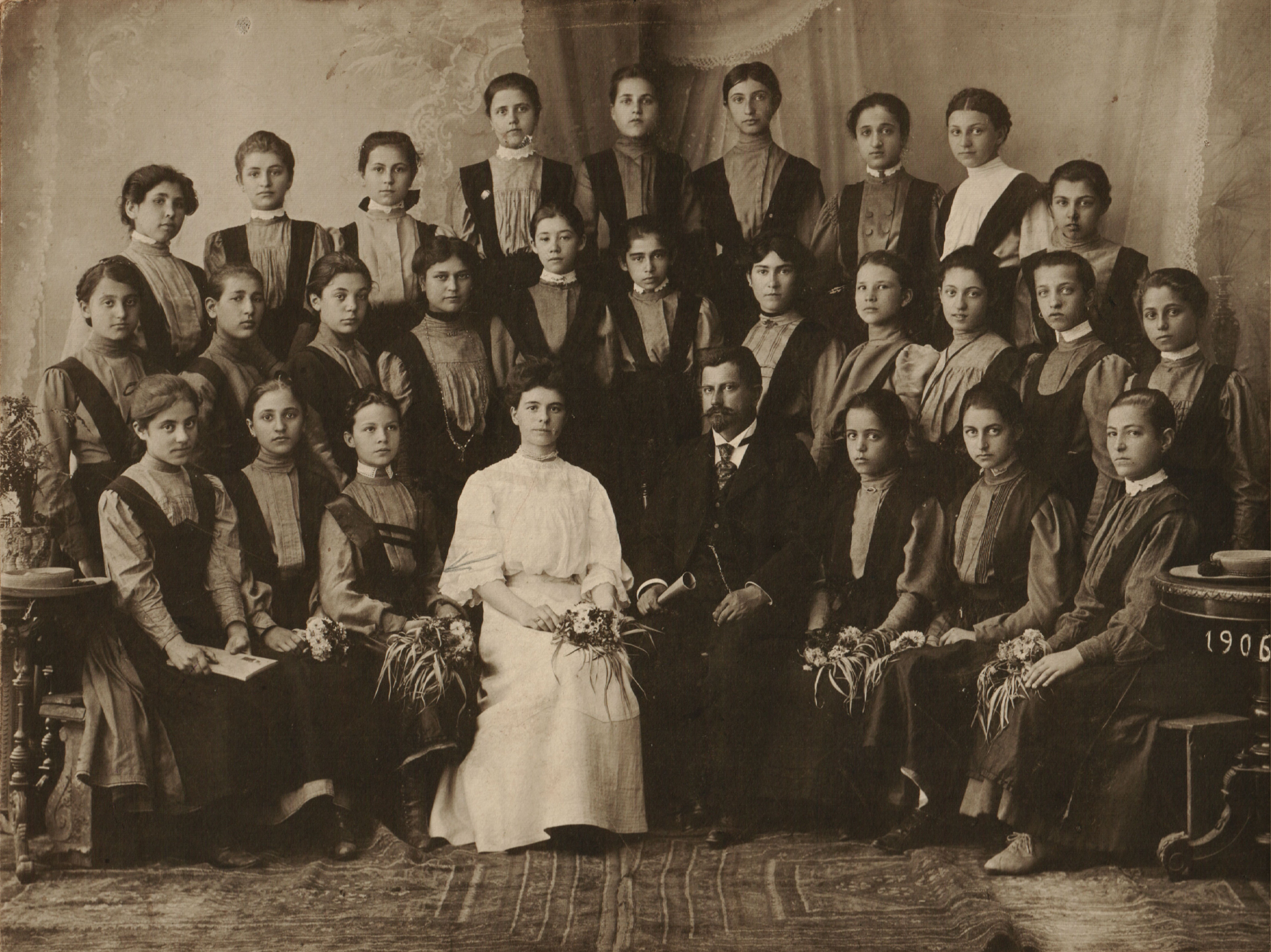 Elisaveta Bagryana with classmates from First Sofia Girls' High School.